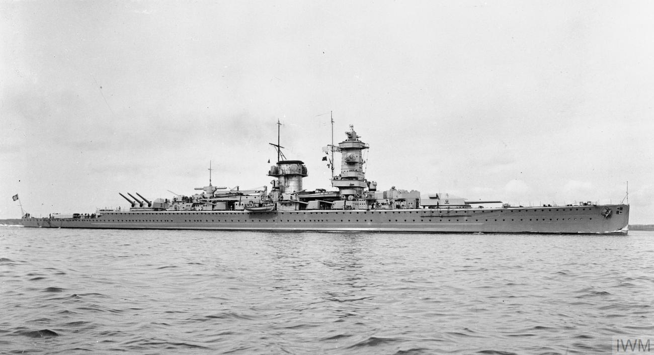 The German heavy cruiser ADMIRAL GRAF SPEE. The ADMIRAL GRAF SPEE was built by the Wilhelmshaven Naval Dockyard, being laid down on 1 October 1932, launched on 30 June 1934 and commissioned on 6 January 1936. In her short commerce raiding career she sank 50,089 tons of shipping before being engaged by British cruisers in what has become known as the Battle of the River Plate (13 December 1939). After putting into Montevideo harbour for repairs, the GRAF SPEE was scuttled in the River Plate estuary on 17 December 1939, after successful British intelligence work had convinced her captain that a much superior British naval force was awaiting her departure from Uruguayan waters.